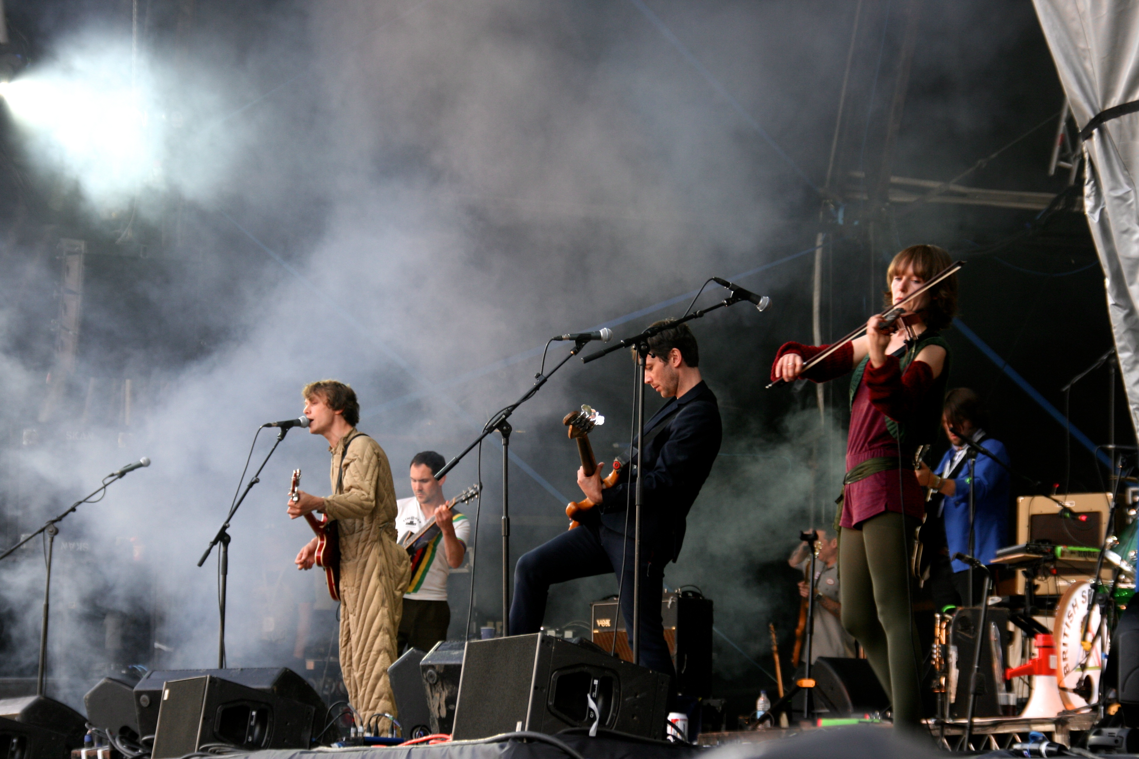 Jodrell Bank Live